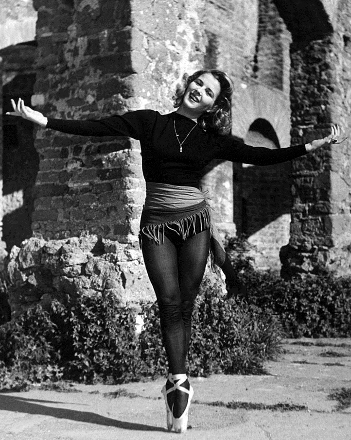 The Italian dancer Delia Scala dances among the Roman ruins of via Appia, inspired by Grieg's 'Morning'. Rome, May 1951